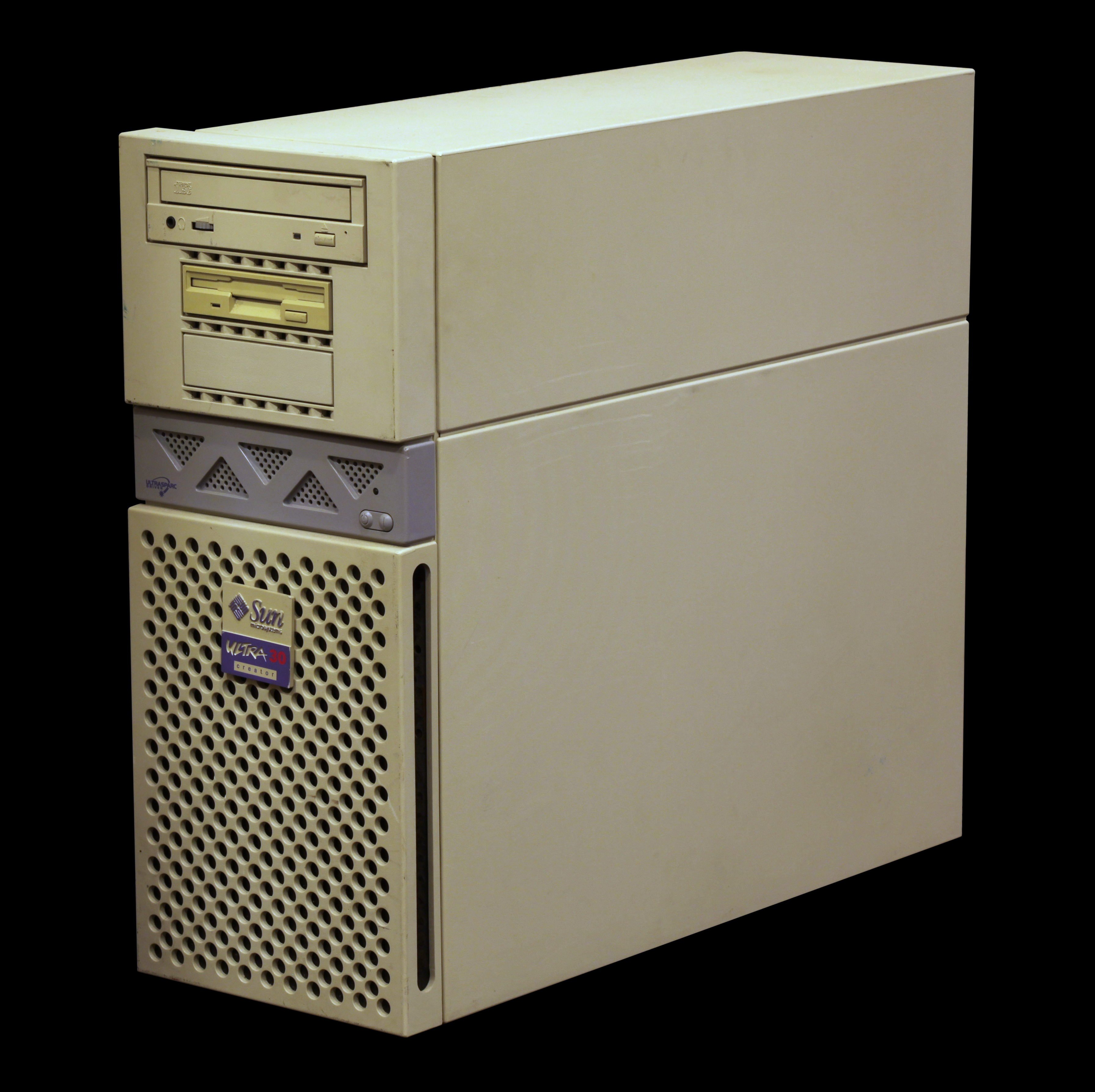 A Sun Ultra 30 workstation The making of this document was supported by Wikimedia CH.(Submit your project!) For all the files concerned, please see the category Supported by Wikimedia CH.